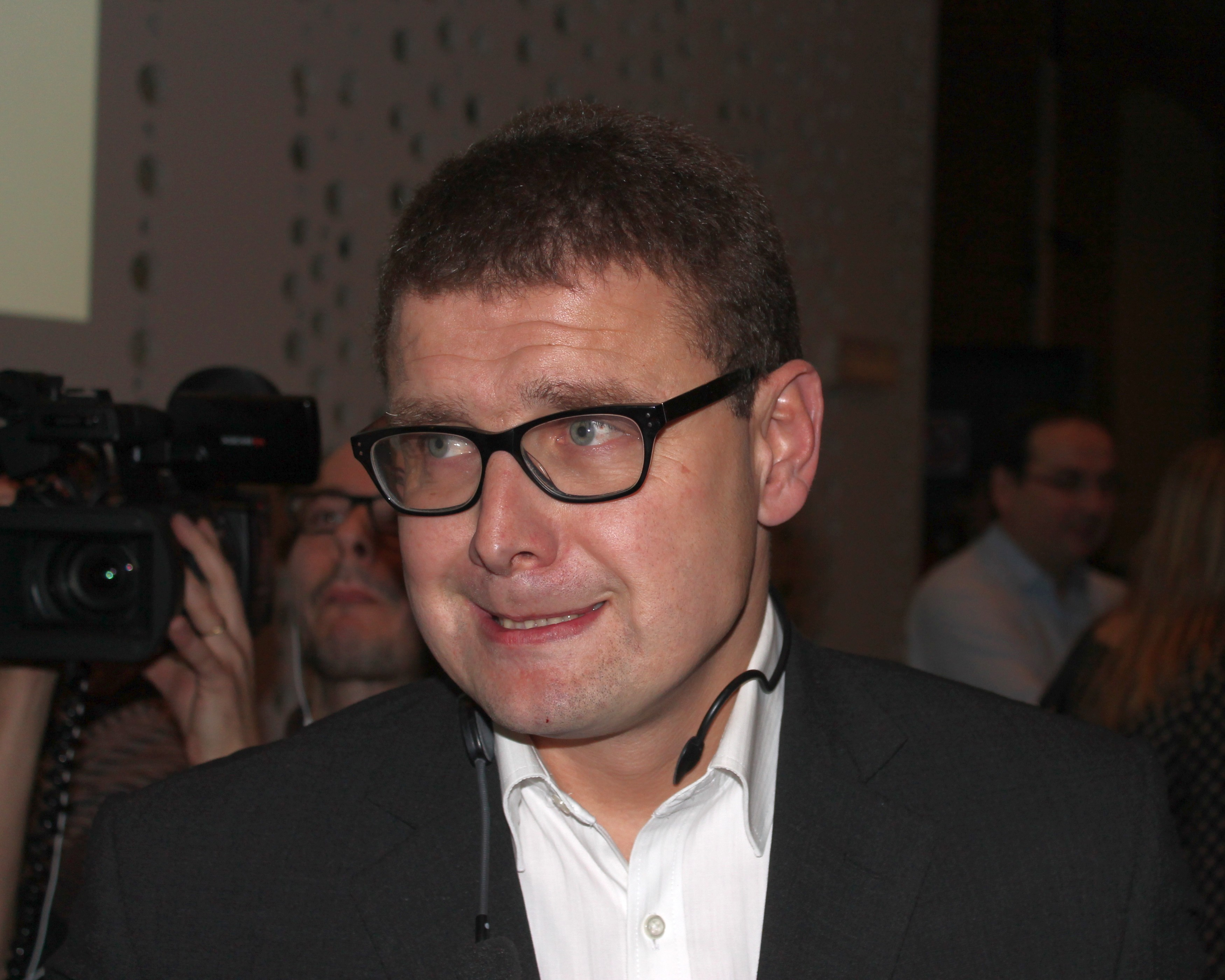 Czech journalist Jindřich Šídlo